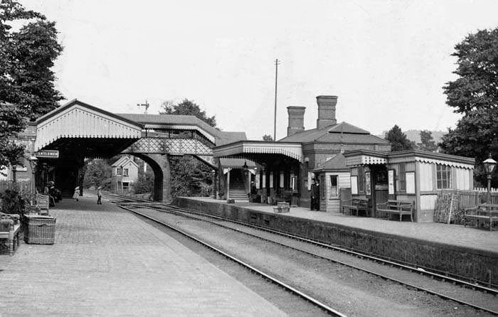 The railway station at Hagley, a postcarde from about 1904 showing typical GWR canopied buildings on both platforms